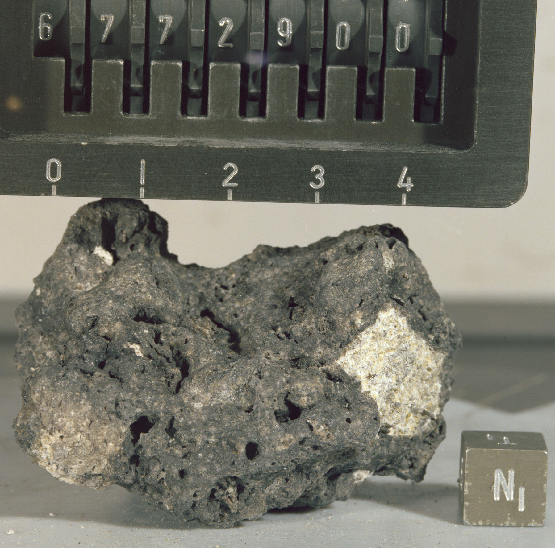 Vesicular breccia, Apollo 16 lunar sample 67729, collected at North Ray on the moon.